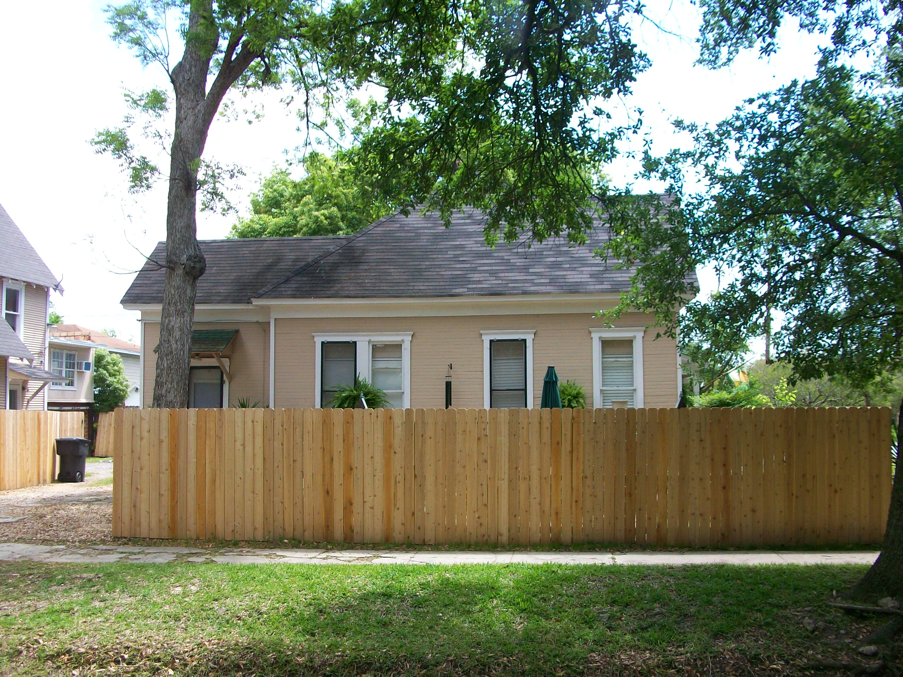 Side view of the house, showing fence